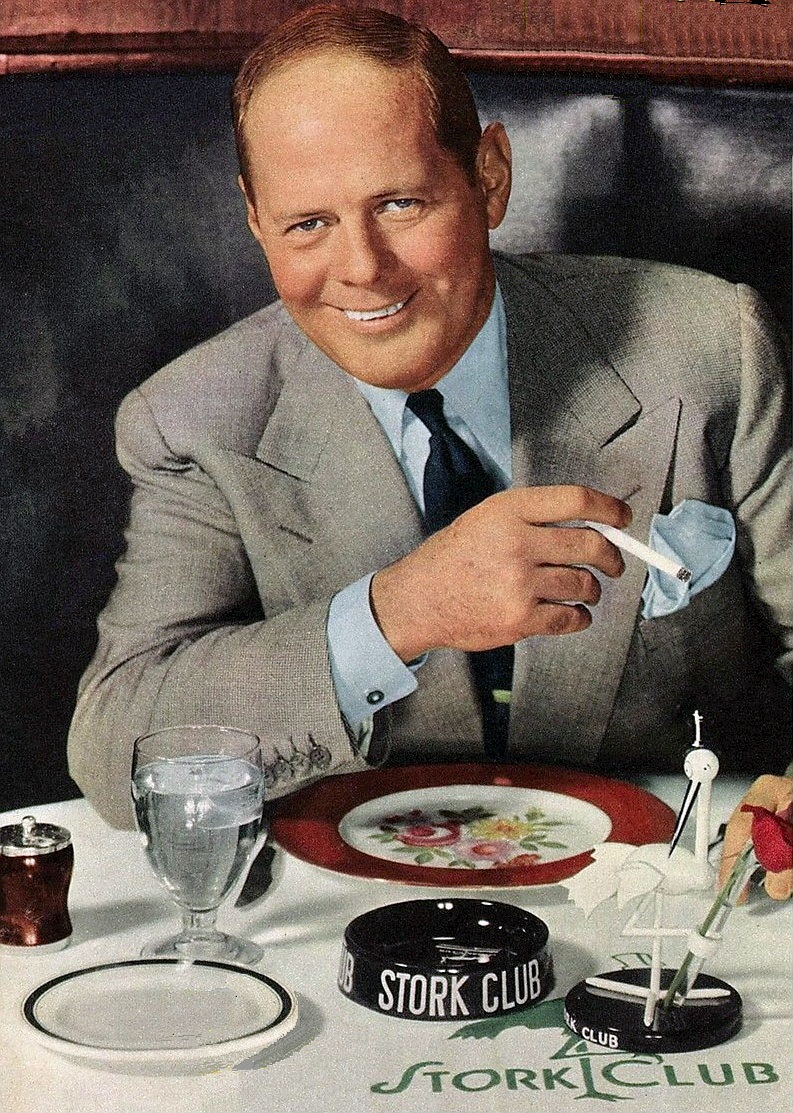 Photo of Sherman Billingsley at his Stork Club taken from a 1951 Fatima Cigarettes ad.